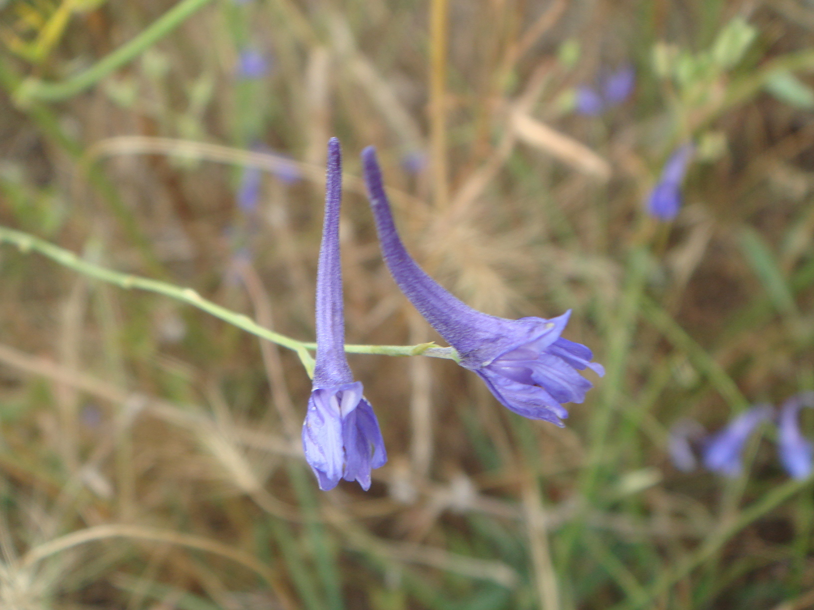 (Delphinium gracile). Spain, (Ávila), La Torre